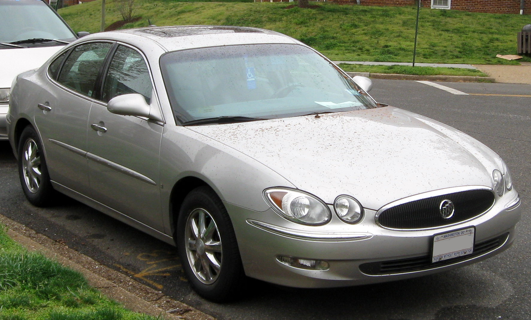 2005-2007 Buick LaCrosse photographed in Washington, D.C., USA.